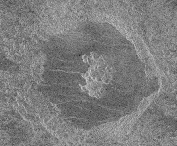 FMAP (radar map) of Grimke crater on Venus, by the Magellan probe